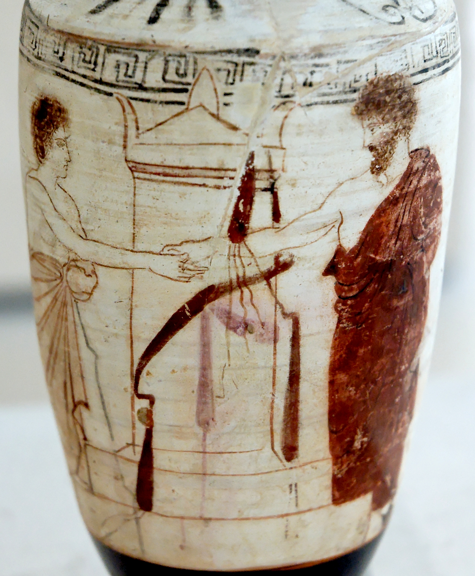 Dexiōsis (handshake) scene; in a funeral context, as is the case here, this solemn gesture represents a farewell. Attic white-ground red-figured lekythos, late 5th century BC.